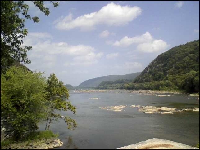 The Short Hill as seen from Harpers Ferry